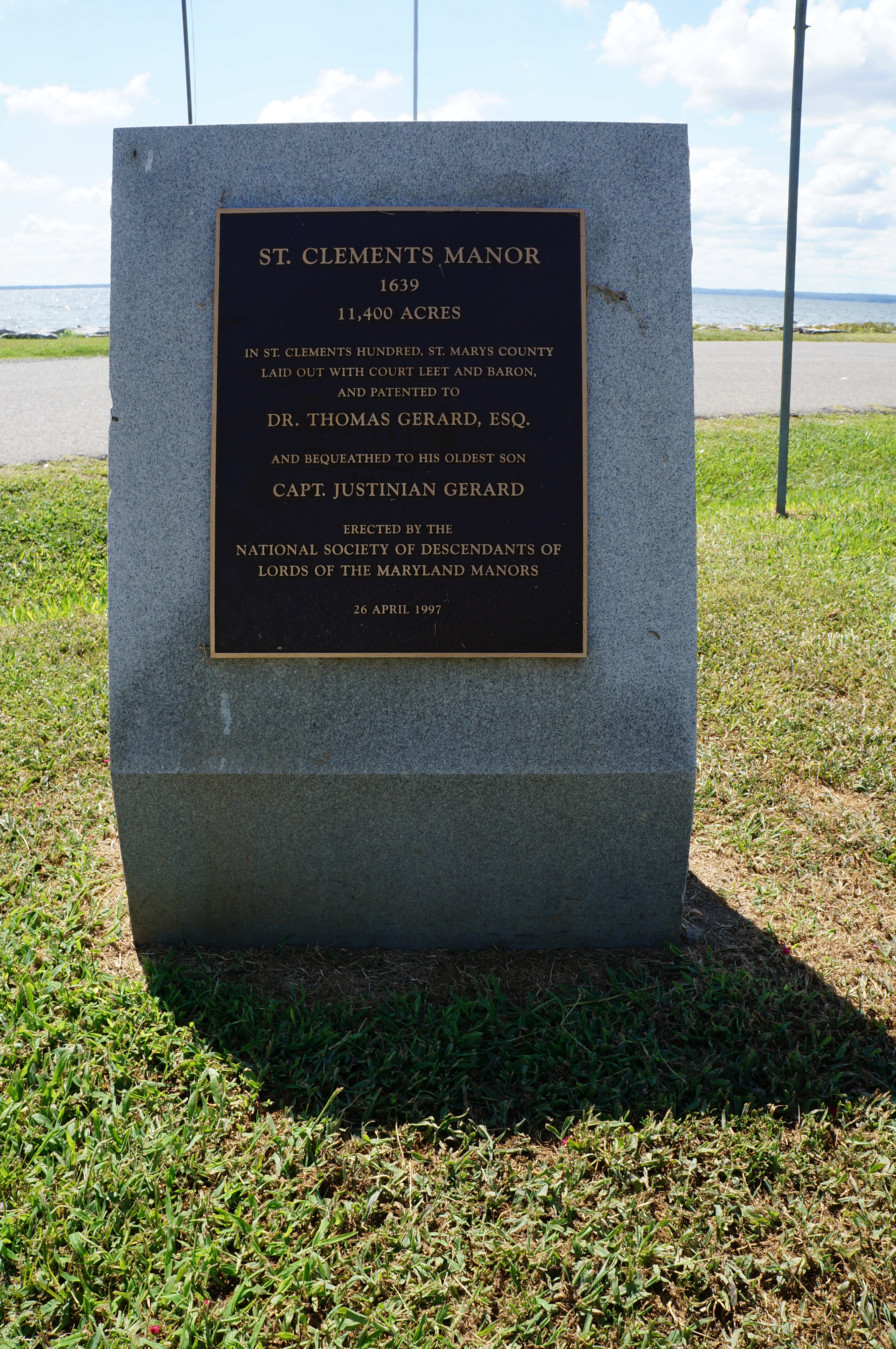 St Clement's Manor plaque at St Clement's Island State Park